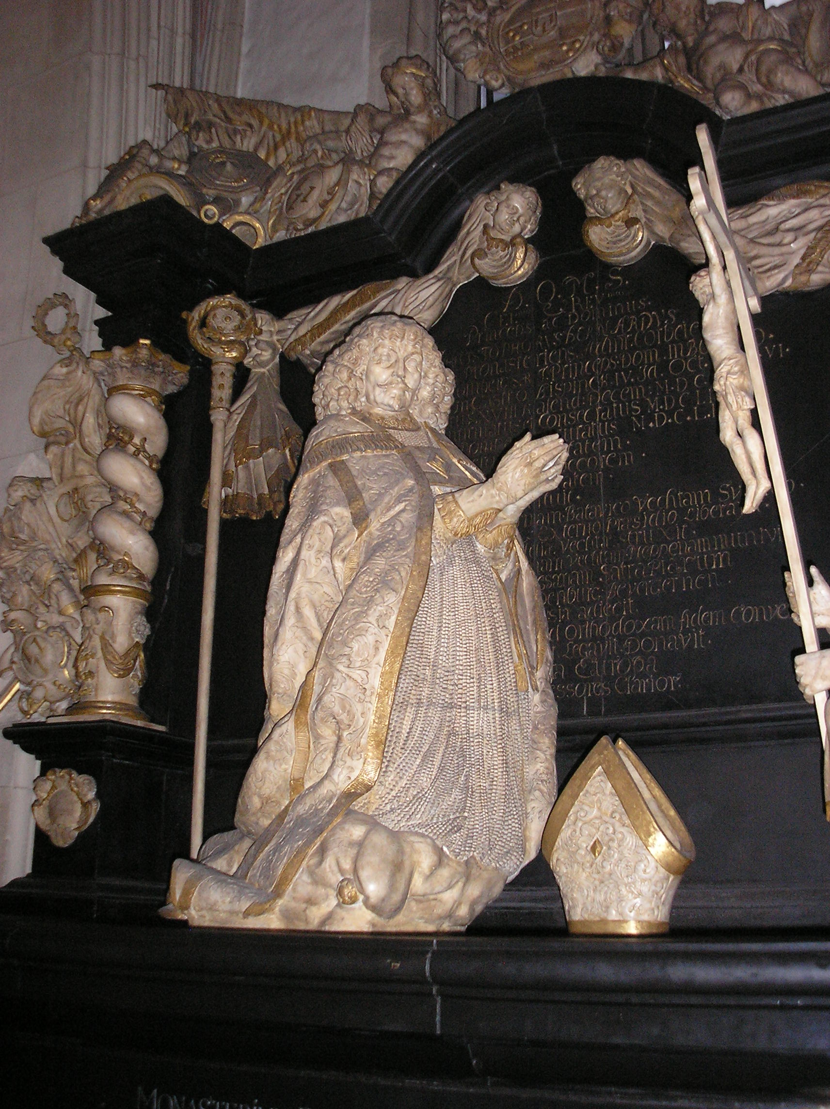 close-up of the large wall tomb for Bernard van Galen at Münster Dom